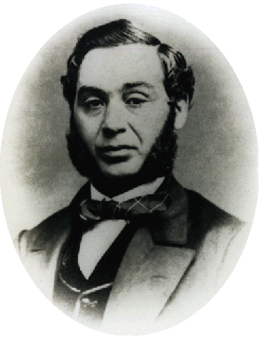 Levi Strauss ca. 1850